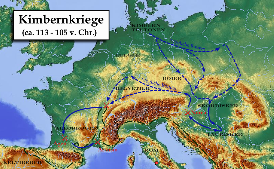 Map showing the Campaigns of Cimbri and Teutoni and their battles against Rome between 113 and 101 B.D.